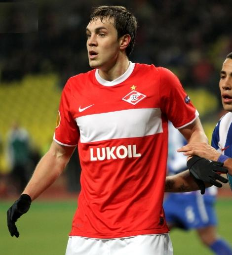 Artyom Dzyuba with FC Spartak Moscow.